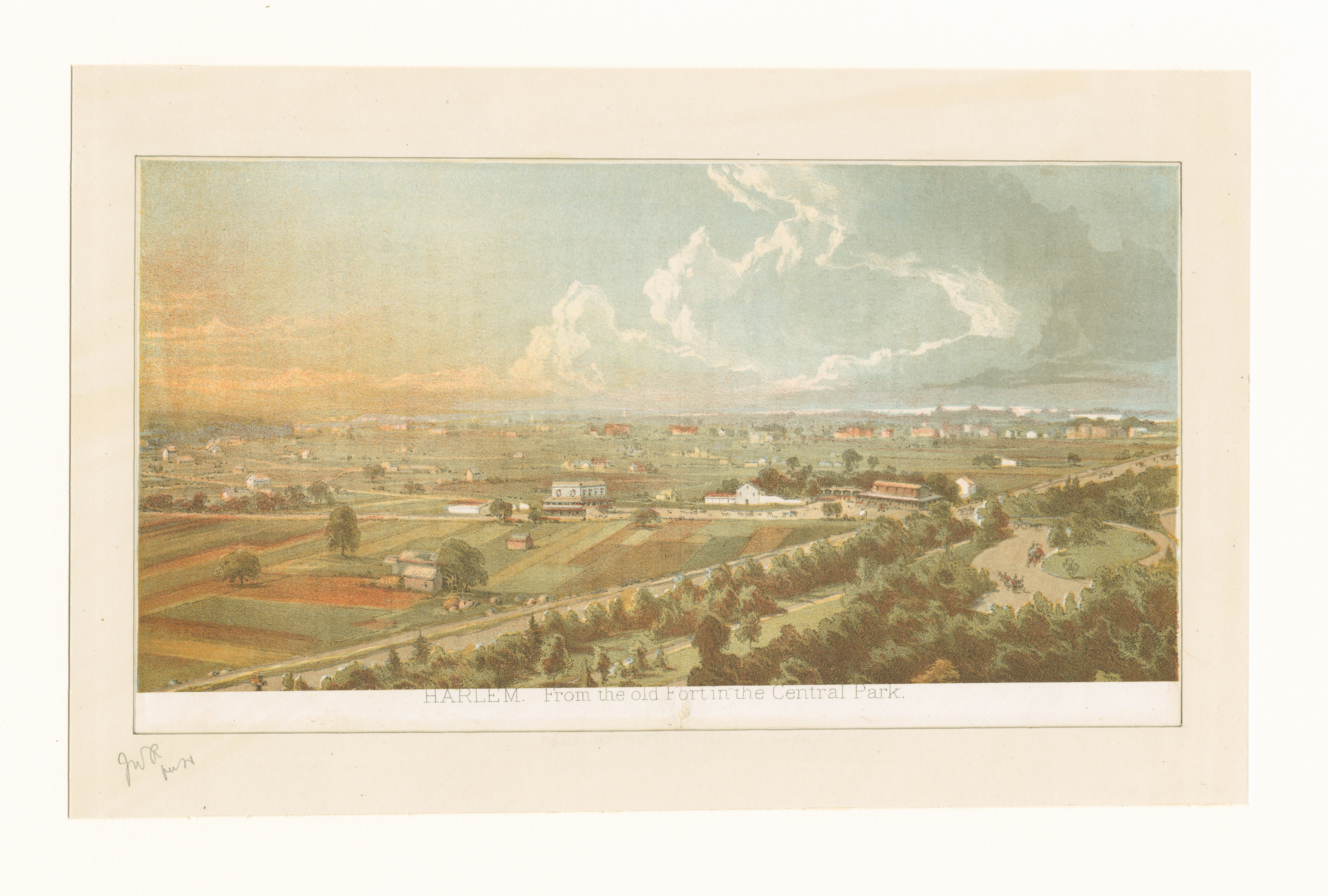 Includes photomechanical reproductions. Title from Calendar of Emmet Collection. EM10944